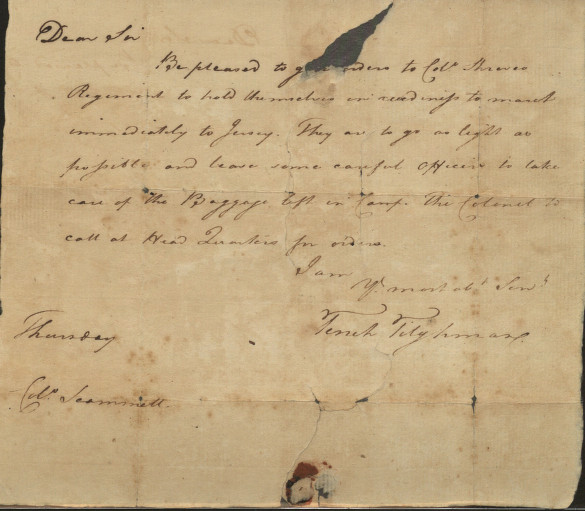 Correspondence from Lieutenant Colonel Tench Tilghman, aide to General Washington, to Colonel Alexander Scammell on a Thursday.